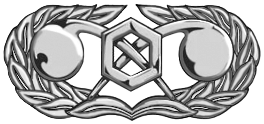 United States Air Force Emergency Management occupational badge (Air Force Occupational Badge, Badges of the United States Air Force)